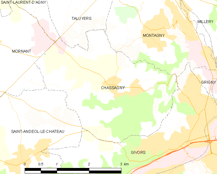 Map of French municipality